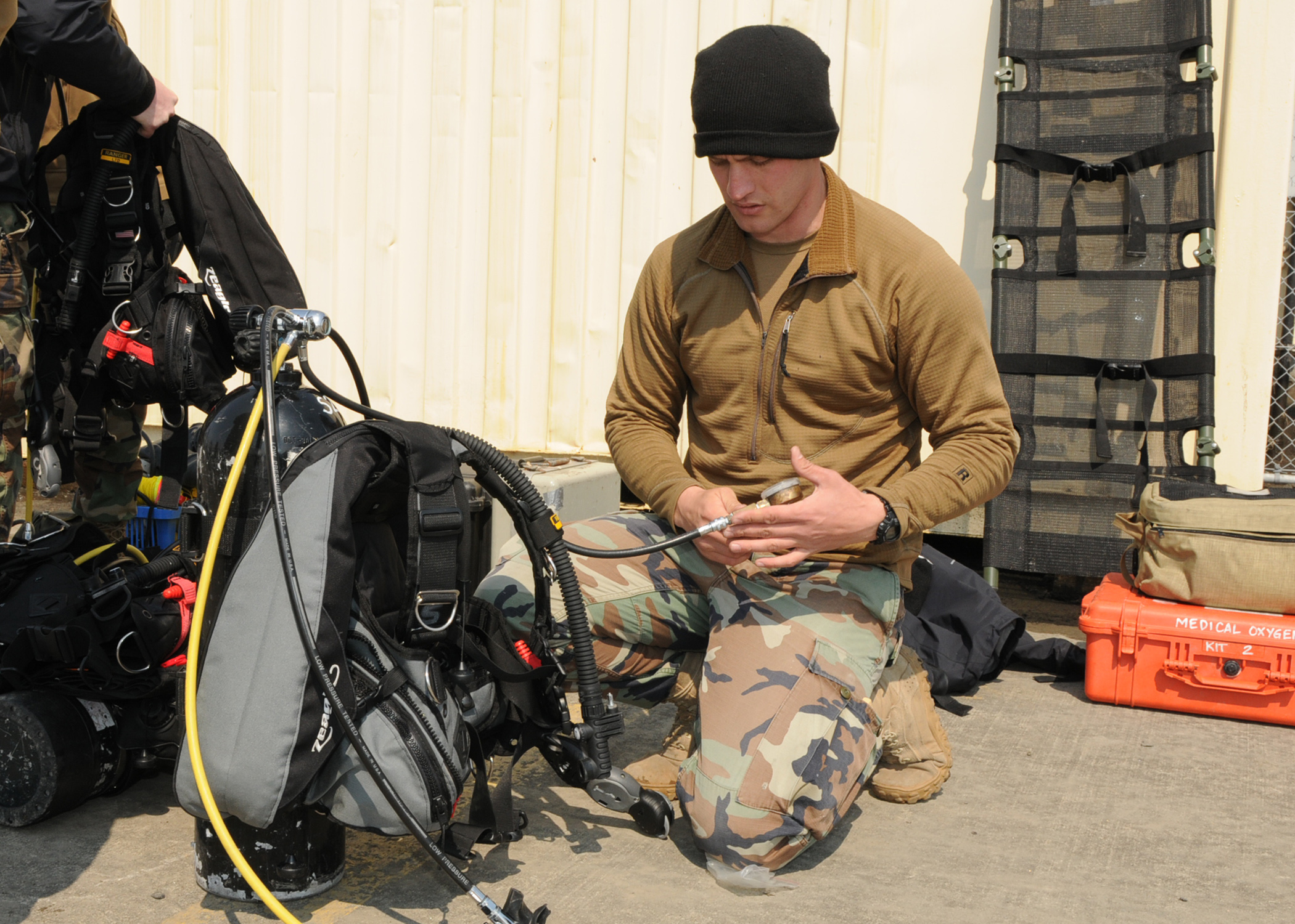 HACHINOHE, Japan (March 25, 2011) Explosive Ordnance Disposal 1st Class Dillon Mudloff, assigned to Explosive Ordnance Disposal Mobile Unit (EODMU) 5, from Yerington, Nev., checks diving equipment before a salvage operation. Navy assets are assisting the Japanese Coast Guard with salvage relief efforts in the surrounding waters of Hachinohe. (U.S. Navy photo by Mass Communication Specialist 2nd Class Devon Dow/Released)